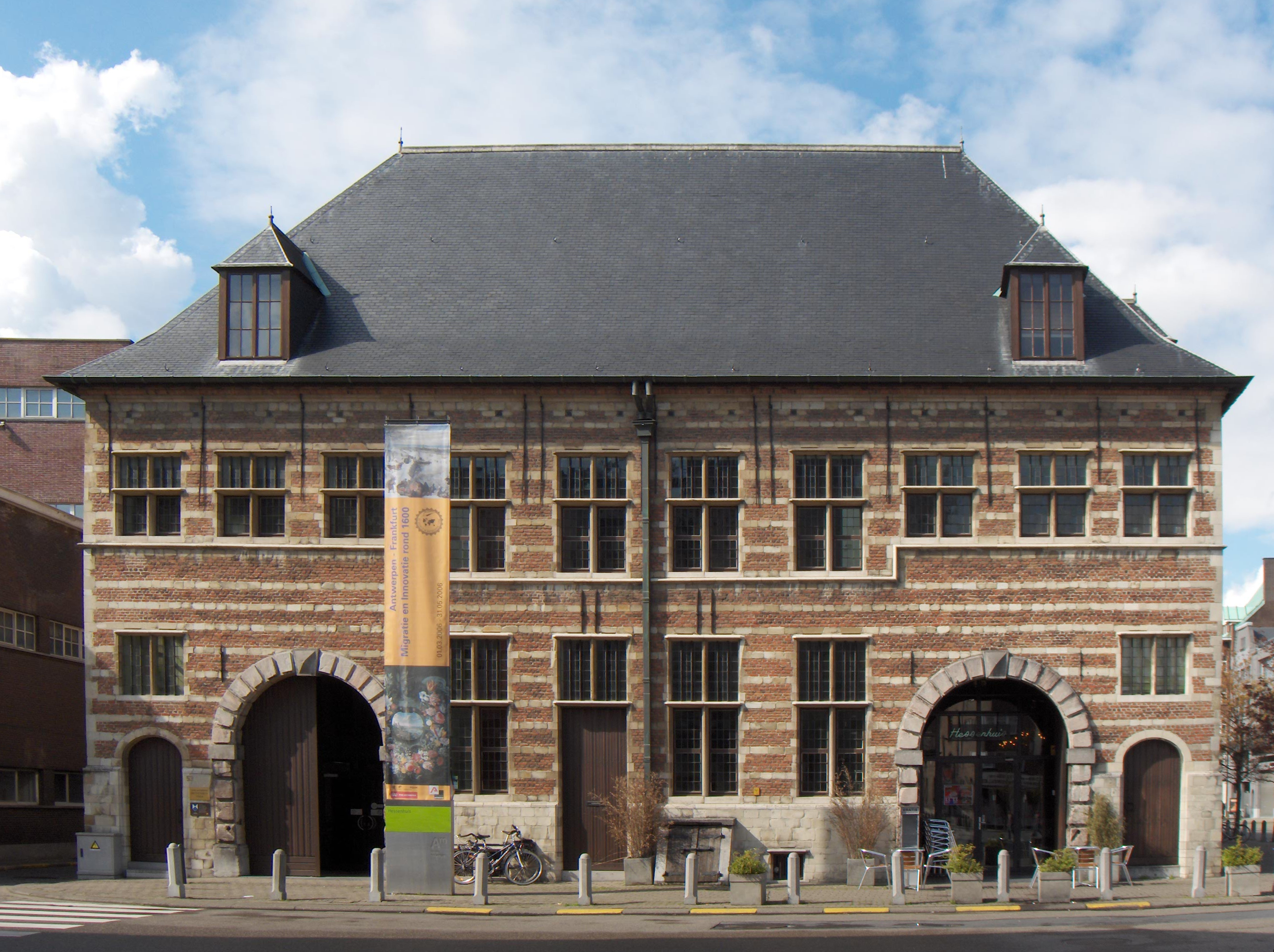 The Hessenhuis in Antwerp. Built in the 16th century. The lower right part of the building is used as a gay bar since 1993.